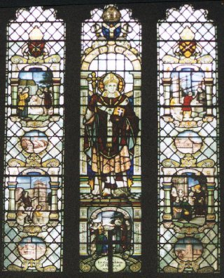 St. Mellitus